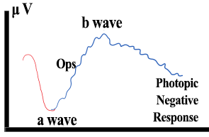 a and b waves in elctroretinogram